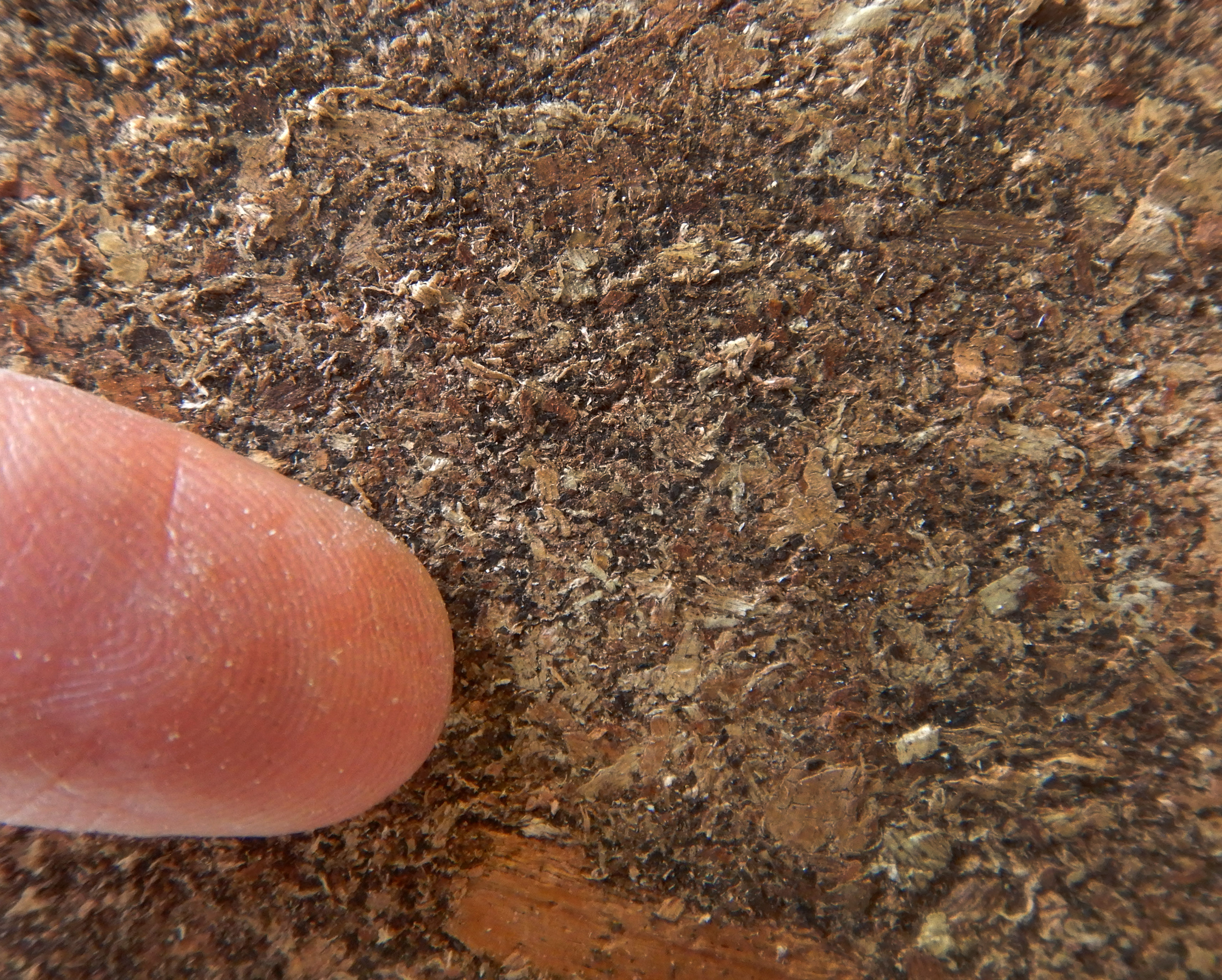 Heating sticks reconstituted with compressed sawdust and coffee grounds, without any additives or binders. In France two models are proposed, 20% or 80% of coffee grounds. The calorific value of this fuel is 5000 Kw / t. The ash content after combustion is 1.5%. The humidity level is less than 10%. These sticks are available in pack (bag of 8 sticks of 26x113x25 cm or pallets of 528 kg). Photograph made during a presentation of waste reduction solutions - during the 2018 European Waste Reduction Week - at the headquarters of the Hauts-de-France Regional Council (in November 2018).